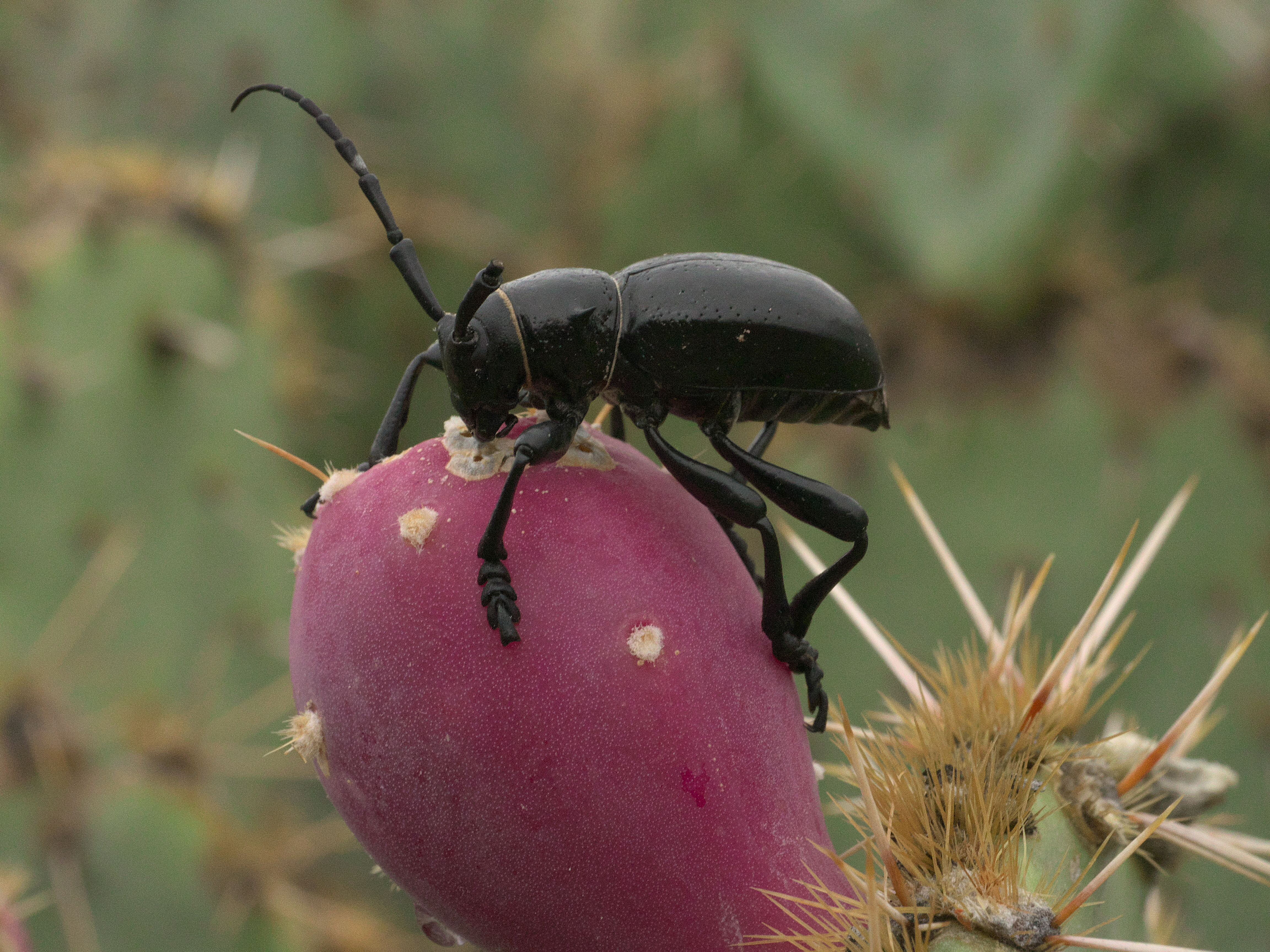 Moneilema gigas, cactus longhorn beetle, ID Confidence: 92